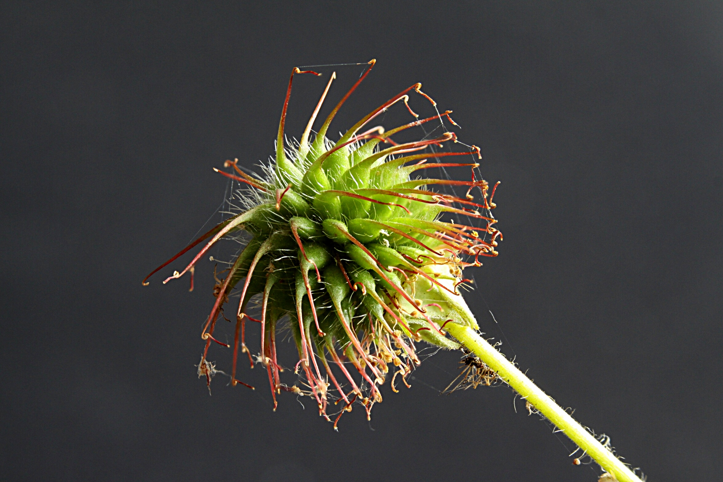 A ripening seed head of wood avens, Geum urbanum.